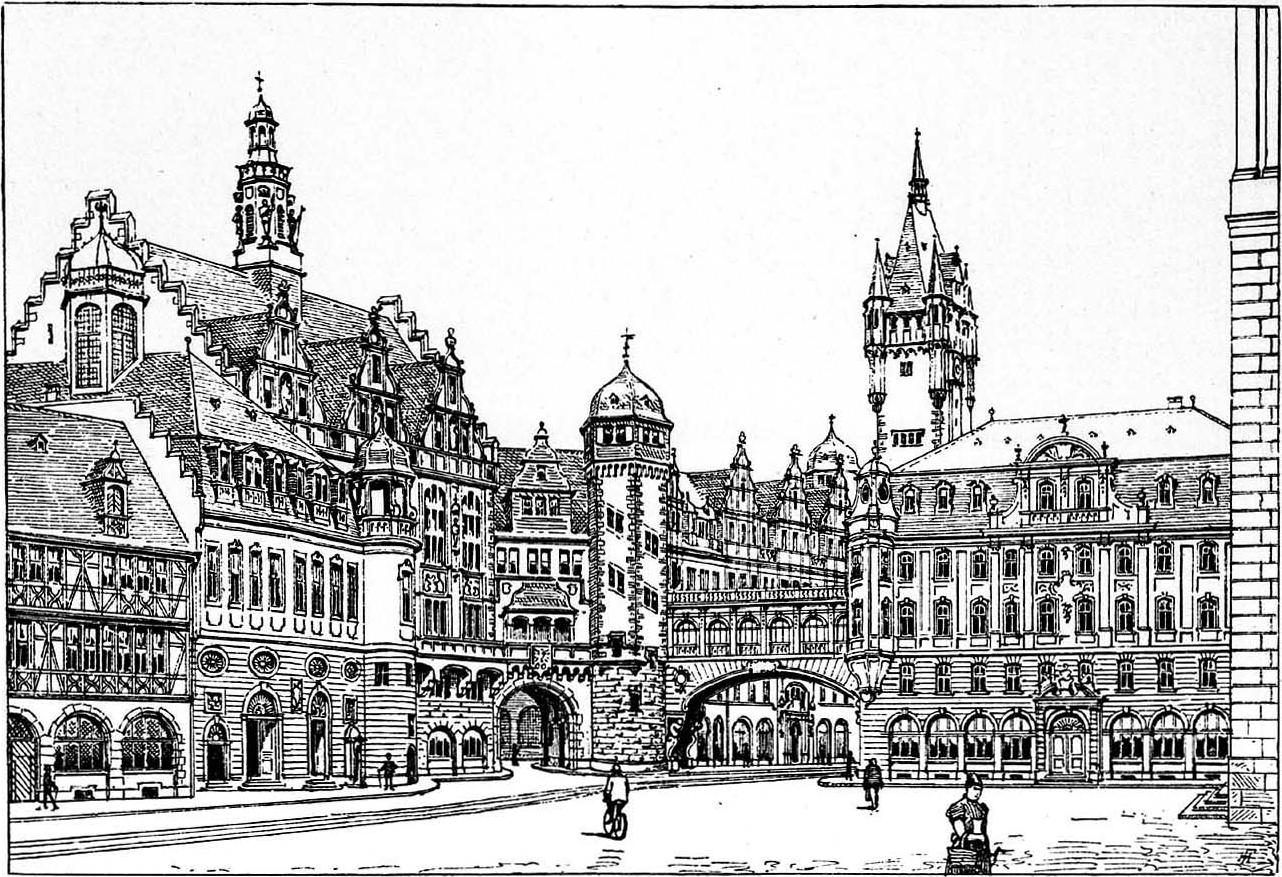 Expansion plan for the Frankfurt town hall, perspective Paulusplatz seen towards Bathmannstrasse.